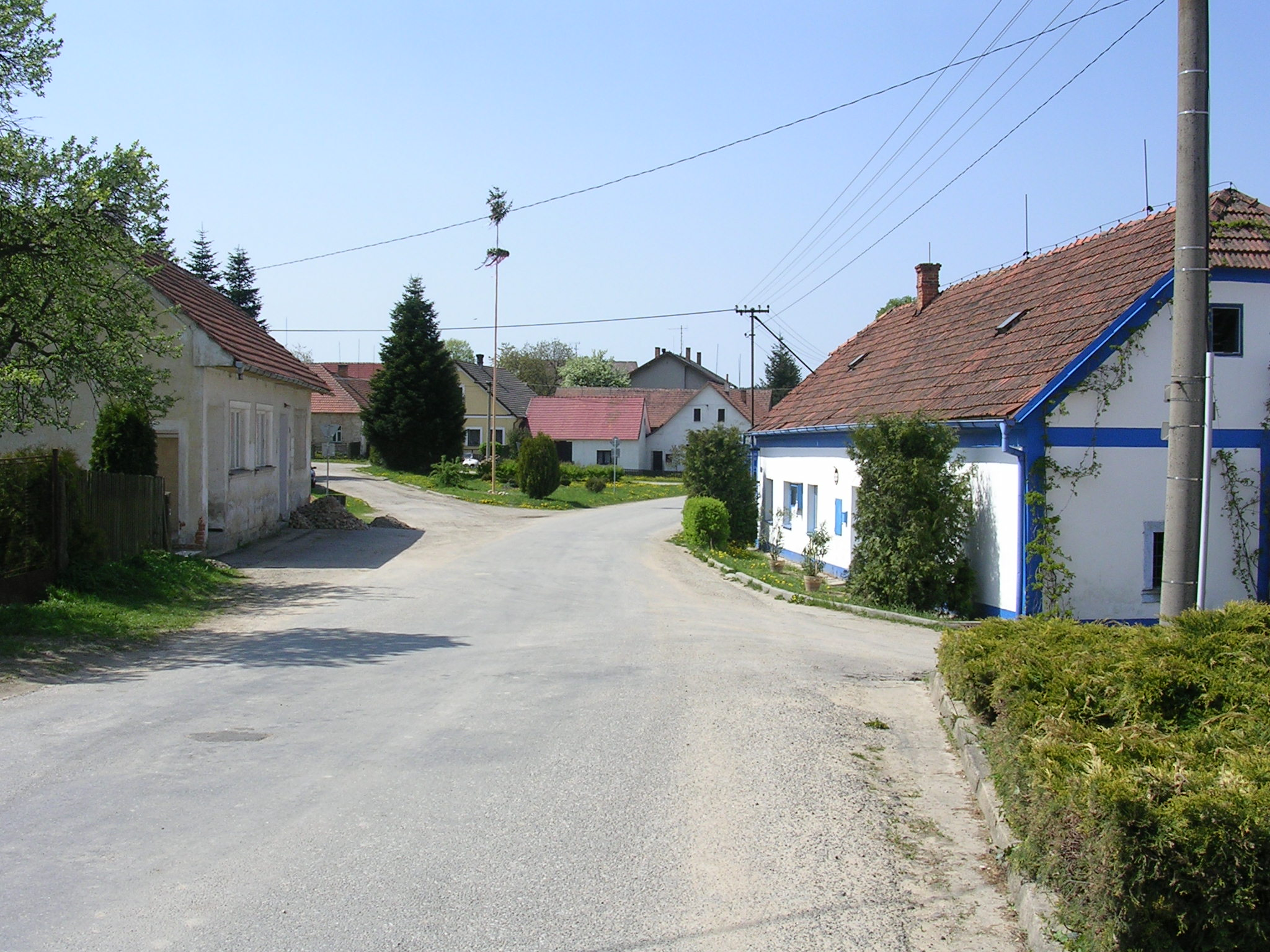 Studená-Olšany, South Bohemian Region, the Czech Republic.